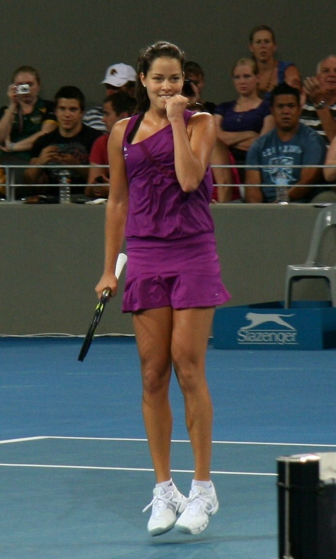 Ana Ivanovic celebrates at the 2009 Brisbane International after match point against first round opponent Petra Kvitova